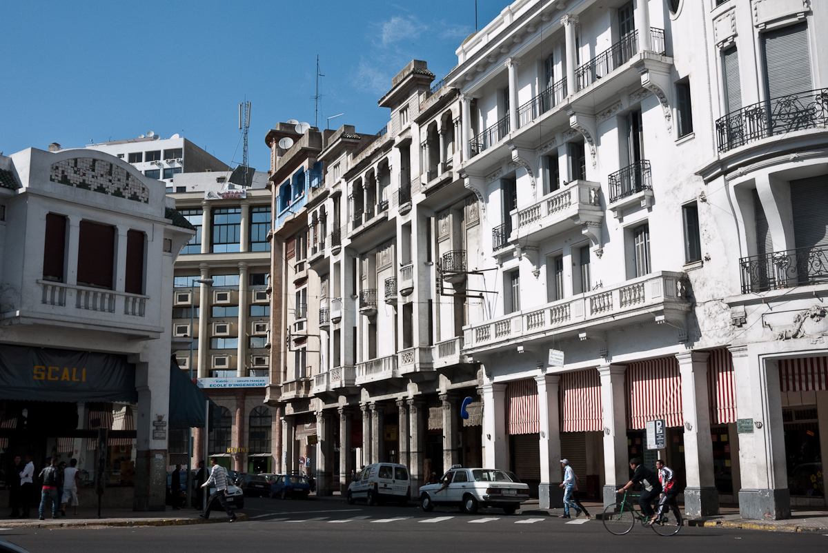 Architecture of Casablanca